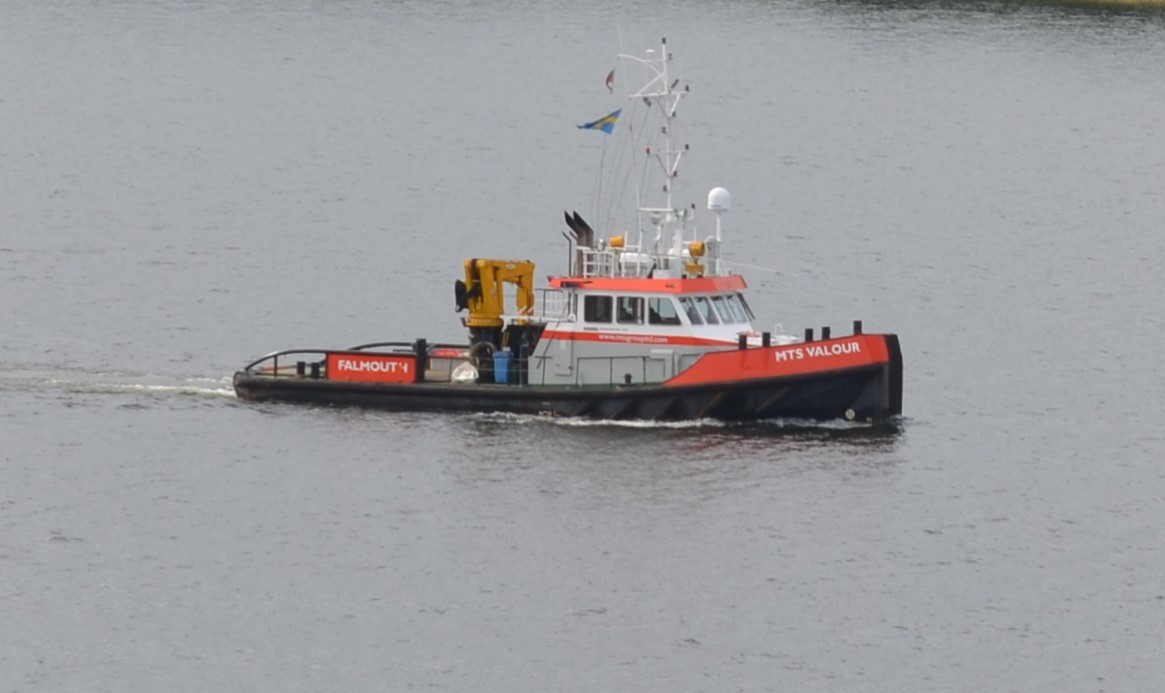 Tug MTS Valour at Lake Mälaren, Stockholm, Sweden